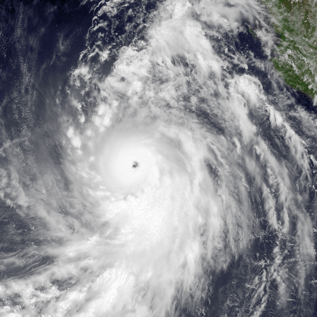 Hurricane Marie as a category five hurricane.